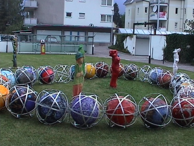 Rolling Stars and Planets performance Reutte Tirol 2009